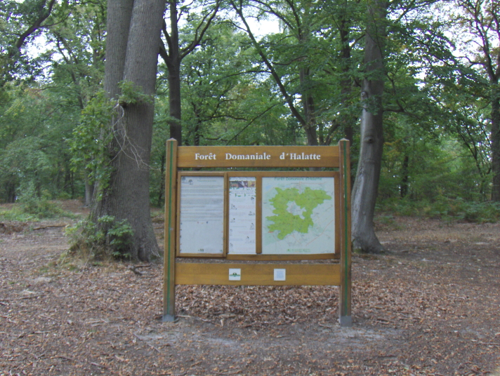 Touristic Panel, Forêt d'Halatte, Aumont-en-Halatte (Oise)